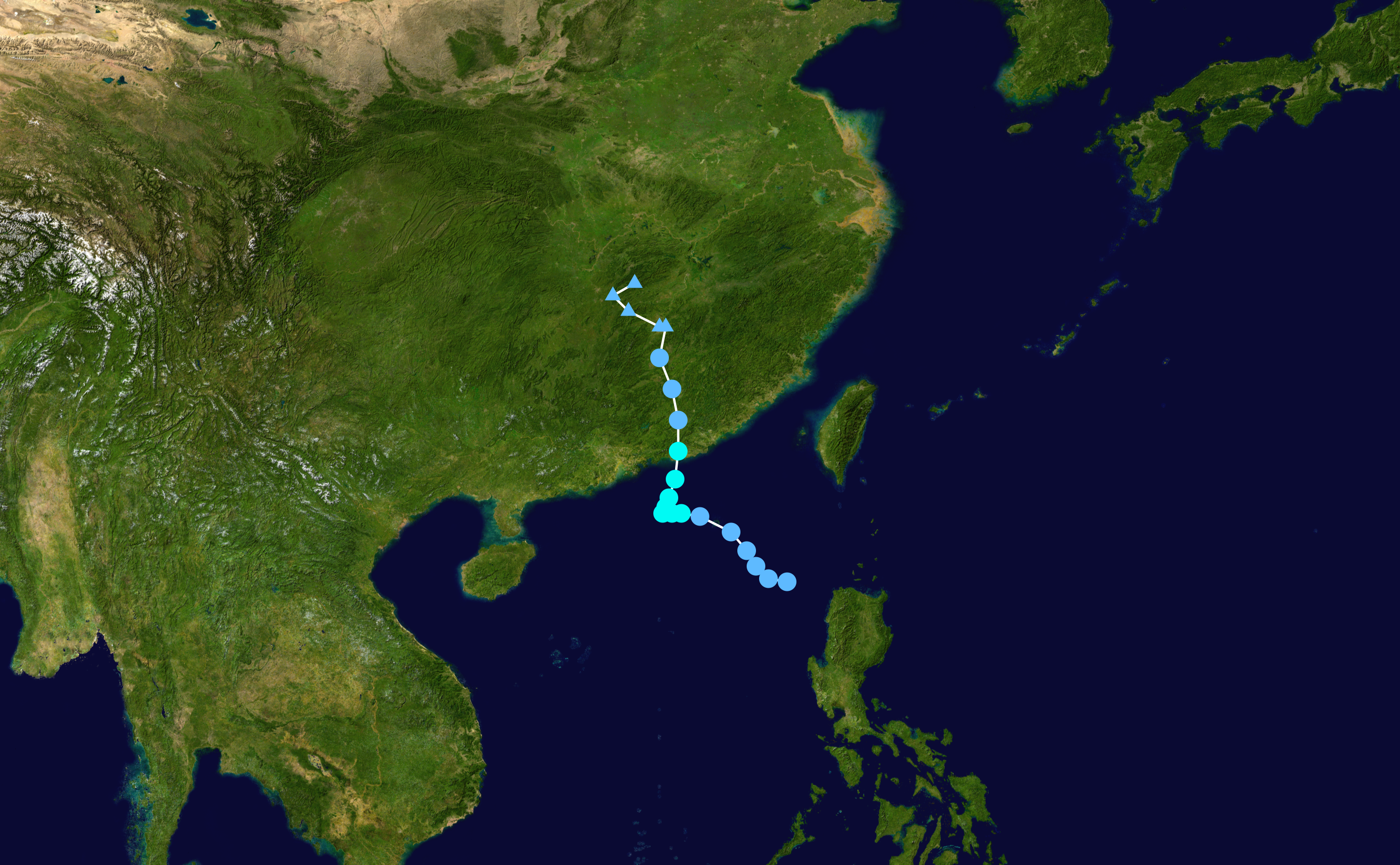 Tropical Storm Kammuri (2002) track. Uses the color scheme from the Saffir-Simpson Hurricane Scale.